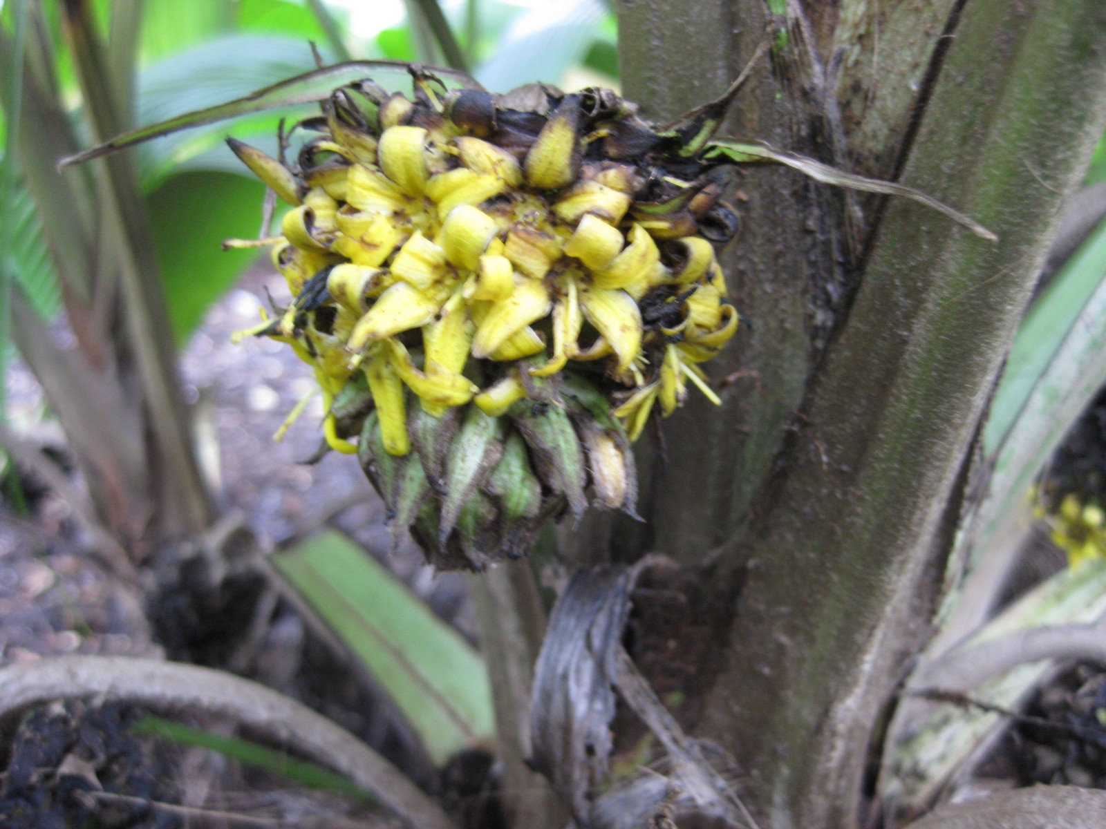 Photographed at the Royal Botanic Gardens Sydney (Australia) in January